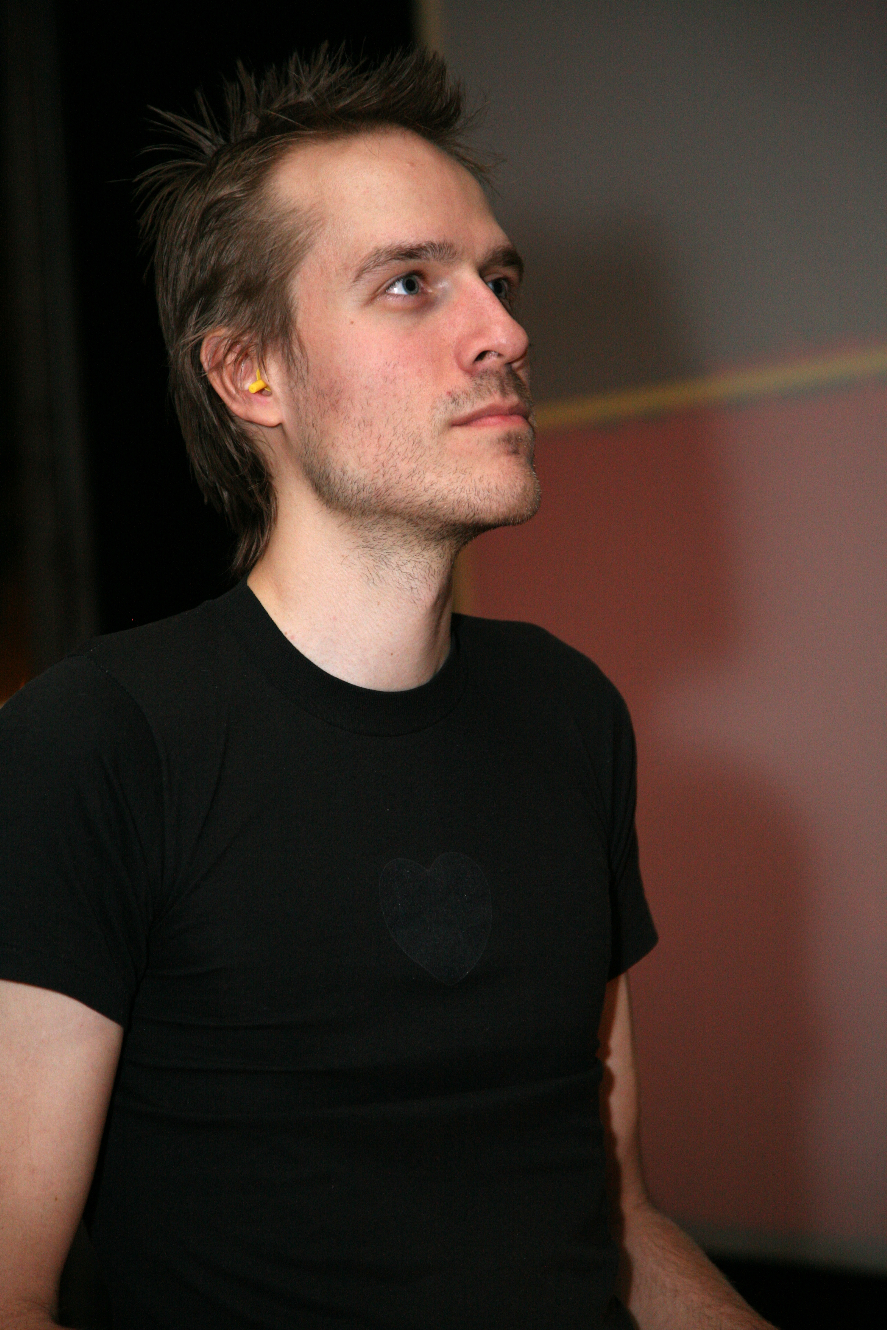 Jason Rohrer at gamma 256 in Montreal